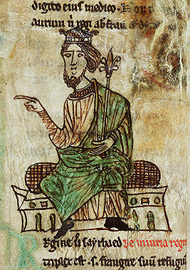 Welsh king, from Peniarth MS 28, presumed to be Hywel Dda